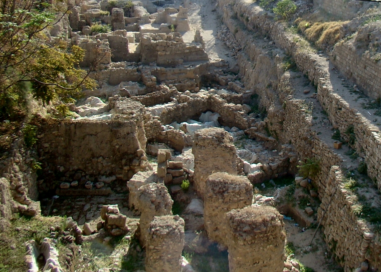 Sidon excavations. "College site" (Bronze & Iron Ages)